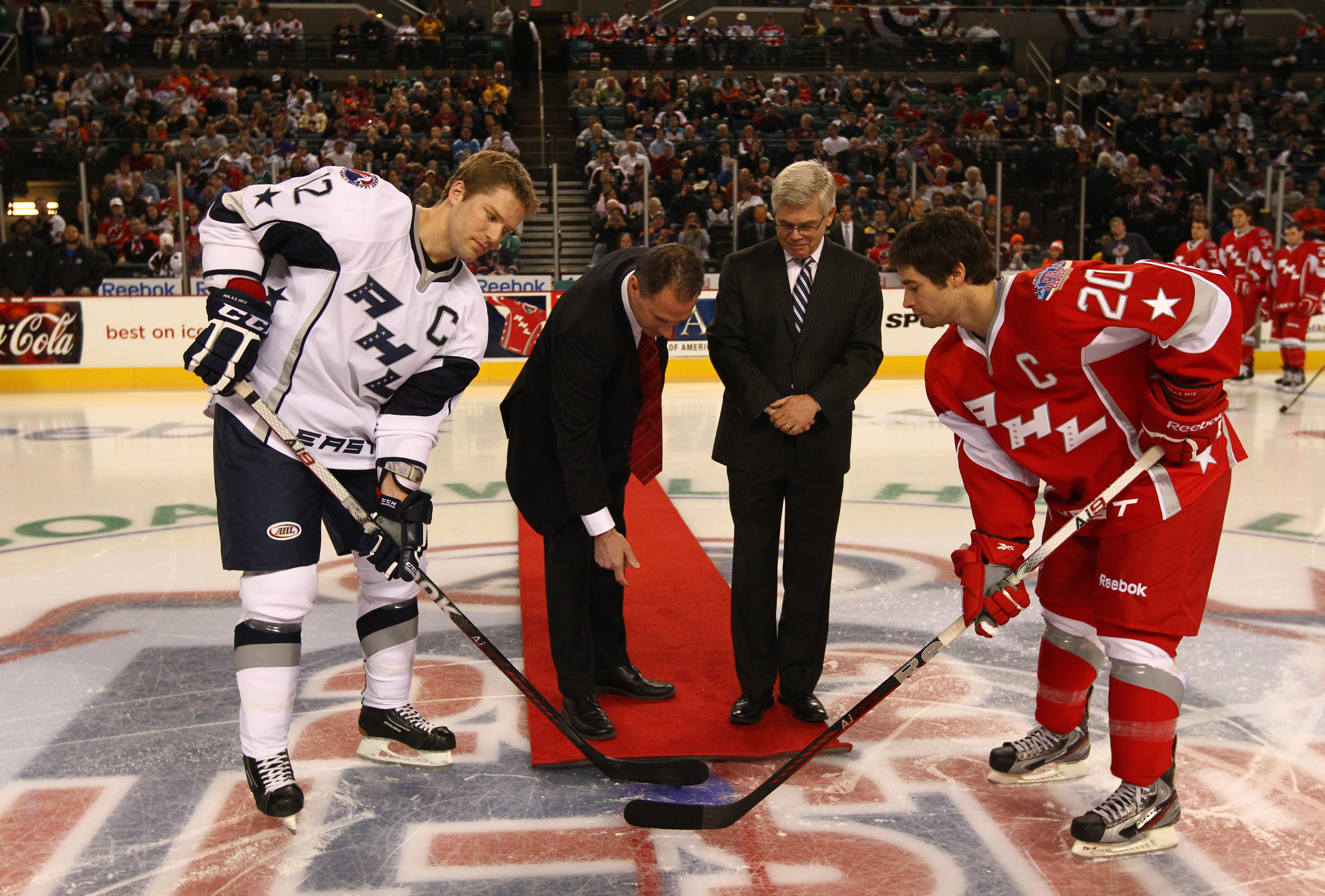 Puck drop: Boyd Kane (left) & Darren Haydar (right), American Hockey League (AHL) All-Star Game Taken on January 30, 2012 using a Canon EOS-1D Mark IV. Boardwalk Hall - Atlantic City, NJ